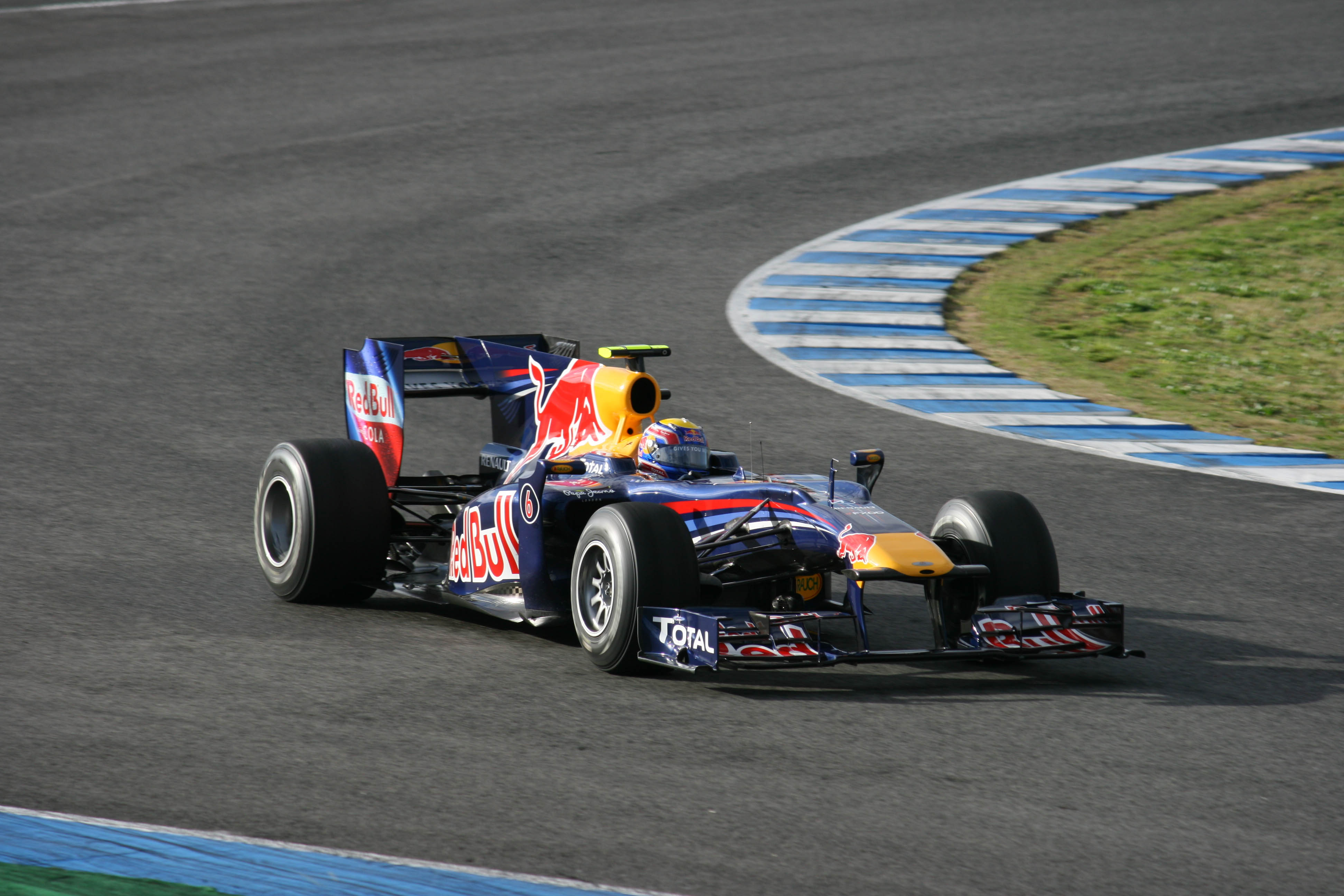 RBR, Mark Webber, pre-season testing in Jerez 2010